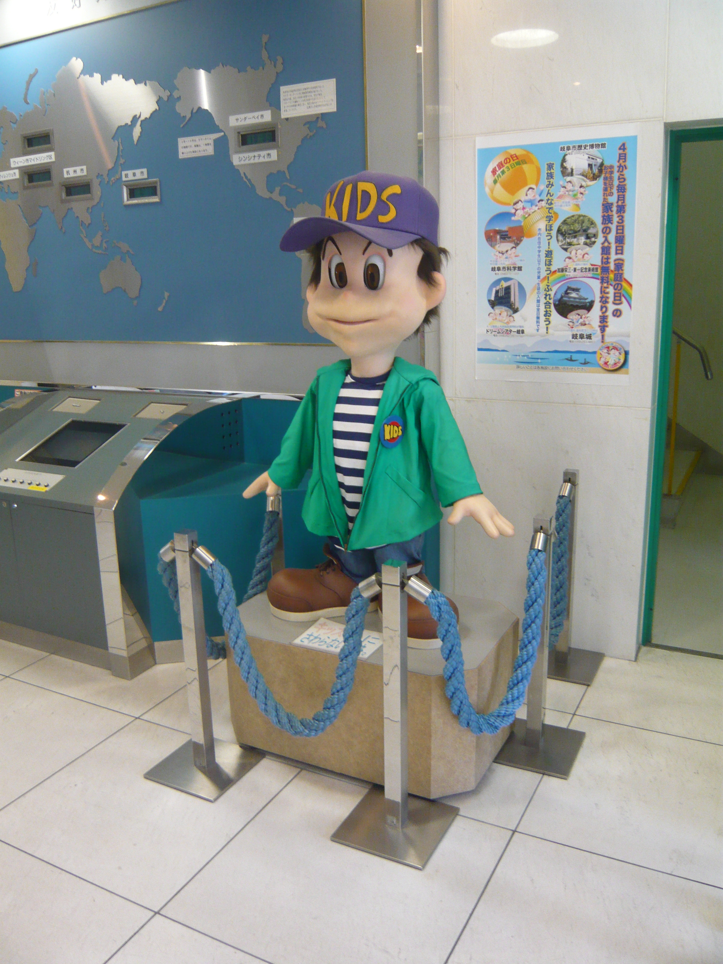 Dream Theater Gifu ドリームシアター岐阜の正面入口,Gifu,Gifu,Japan（岐阜県岐阜市）で撮影。